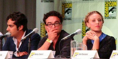 Kunal Nayyar, Johnny Galecki and Kaley Cuoco at Comic-Con